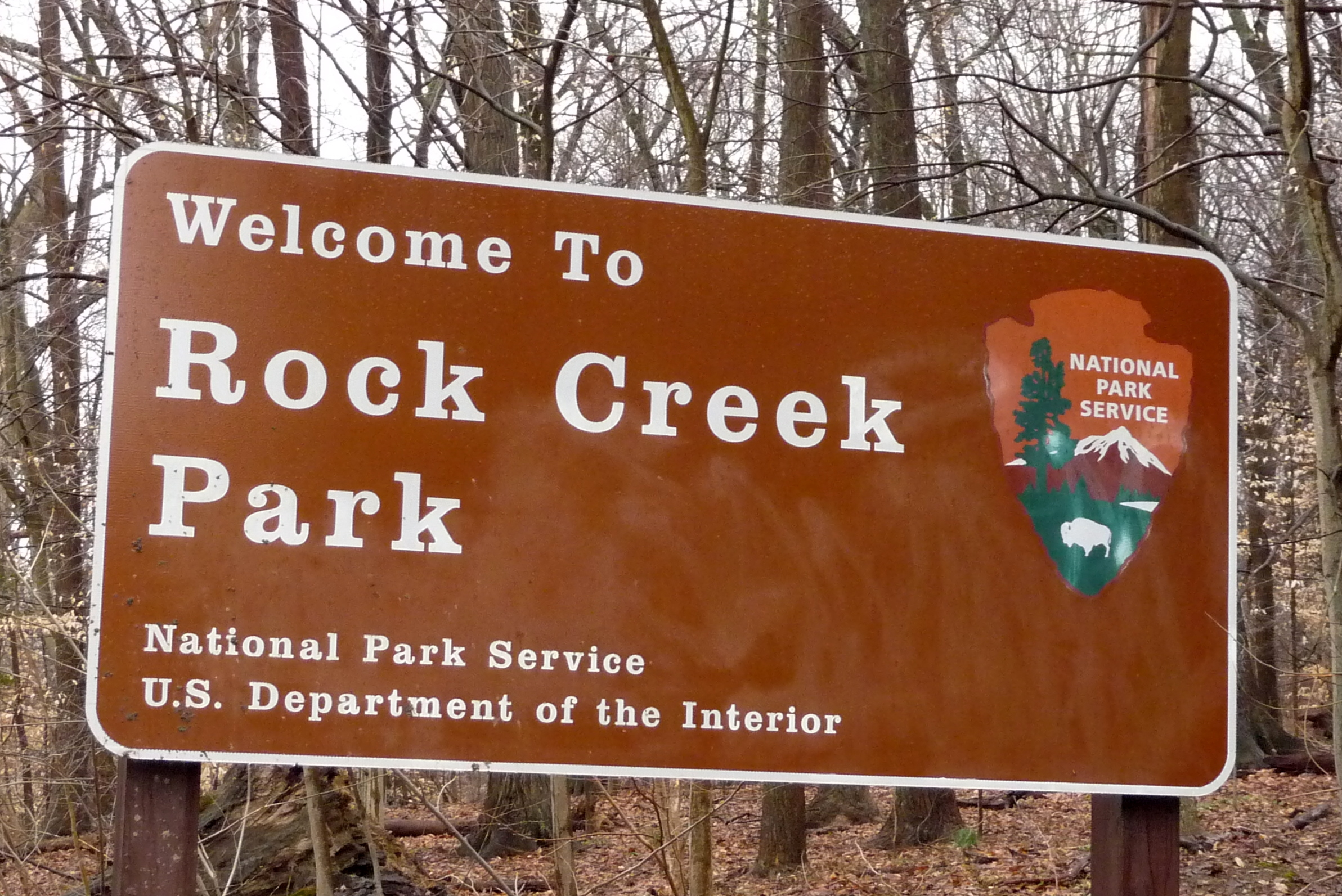 Rock Creek Park sign — in Washington, D.C. at the Maryland border.